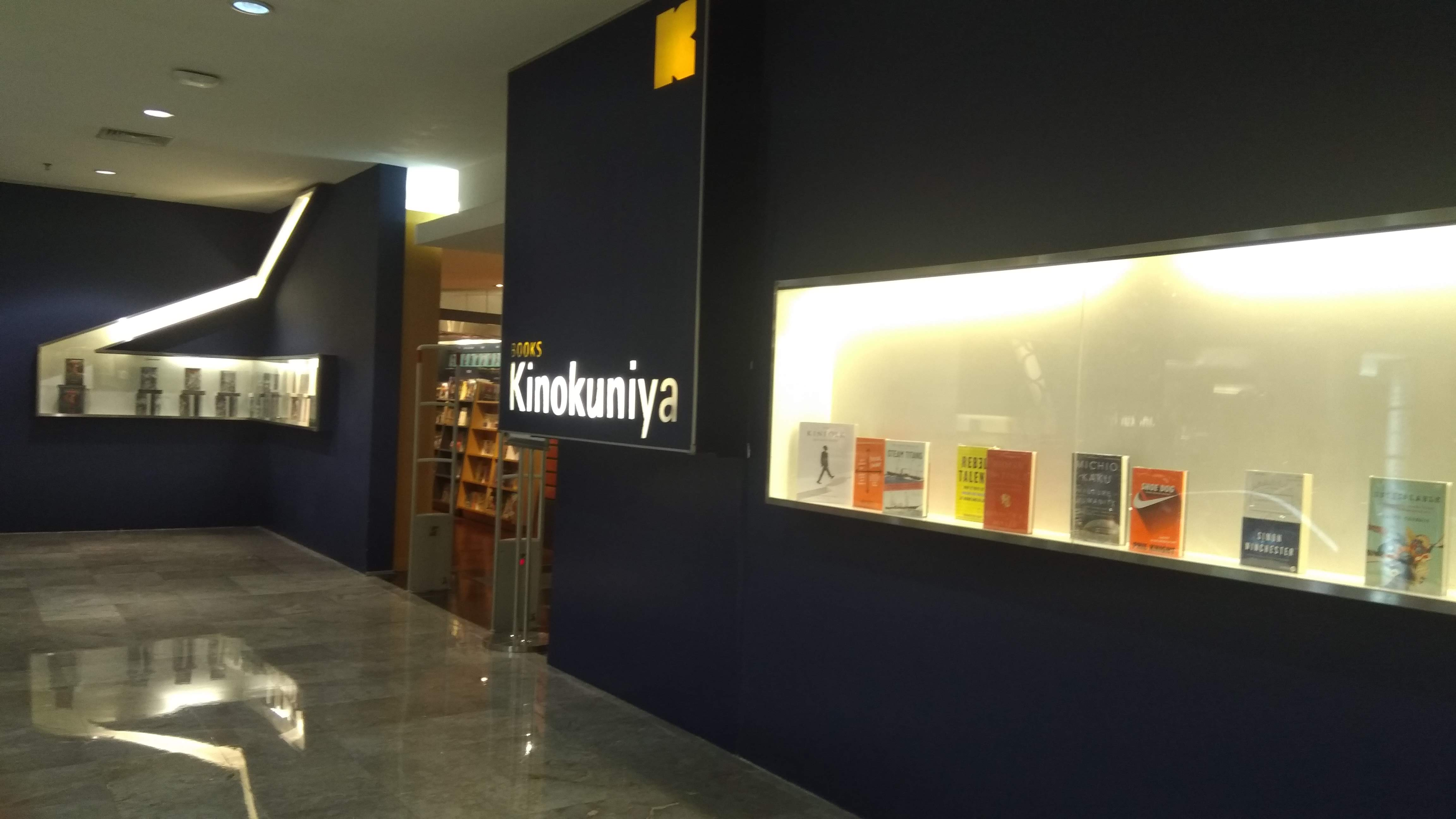 Shop sign of Books Kinokuniya Sogo Plaza Senayan